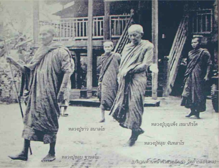 From left: Ven.Luangpu Chob Thannasamo, Ven.Luangpu Khao Analayo, Ven.Luangpu Louis Chandasaro, Ven.Luangpu Bunpeng Kemabhirato. Mostly misunderstanding as the leftmost is Ven.Ajahn Mun Bhuridatto and the rightmost is Ven.Luangta Mahabua. The picture was probably taken at old main sala of Wat Pa NongphueNa Nai in Sakon Nakhon--not Wat Pa Bantat which was built after Ven.Mun's death.